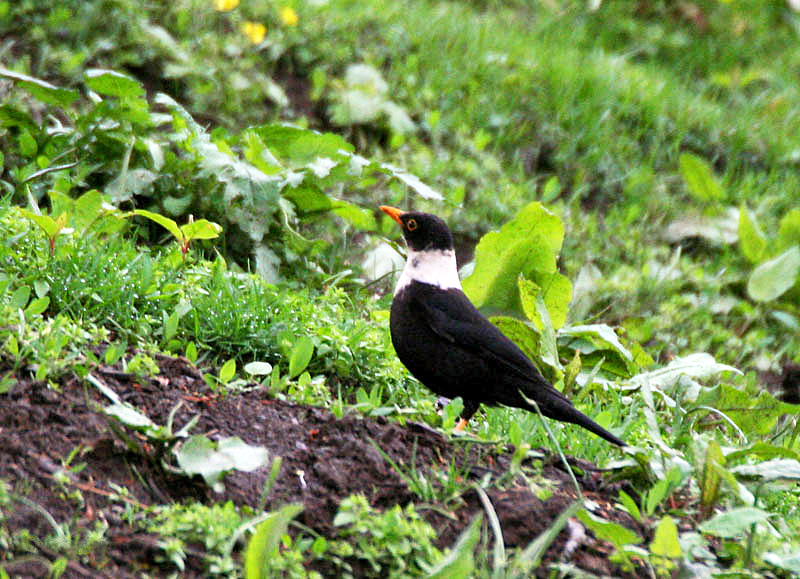 White-collared Blackbird Turdus albocinctus at Kullu District of Himachal Pradesh, India. Seen singly foraging at the floor by shifting vegetable matters with its bill at a Thaatch with scattered trees in morning around 6.15 a.m. The place was abuzz at that time with activities of Himalayan Woodpeckers, White-throated Nuthatches, Black & Yellow Grosbeaks, Oriental Turtle Doves, Spot-winged Tits, Hume's Warblers etc. This picture taken at Bhandak Thaatch ( around 9000 ft.) on 12/5/07 during Sar Pass Trek in Himachal. Two of them ( possibly male & female) also seen during the spordic rains in the afternoon on way to Bhandak Thaatch from Biskeri (11000 ft.) while making beautiful descending call of 'tew-i, tew-e, tew-o' from Pine tree top in a very big Thaatch, possibly as a part of hunting party of Long-tailed Minivets, Ultramarine Flycatchers, Hume's Warblers, Rufous-vented & Spot-winged Tits etc. as all of them almost came simultaneously from nowhere & the whole place suddenly appeared to be abuzz with lot of bird activities.